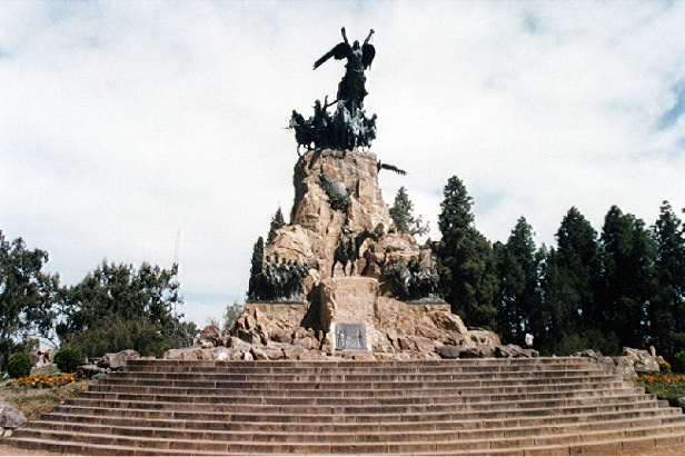 Army of the Andes monument at Cerro de la Gloria, Mendoza, Argentina.